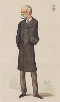 Caricature of Lt-General Sir SJ Browne KCB KCSI VC. Caption read "Sir Sam".